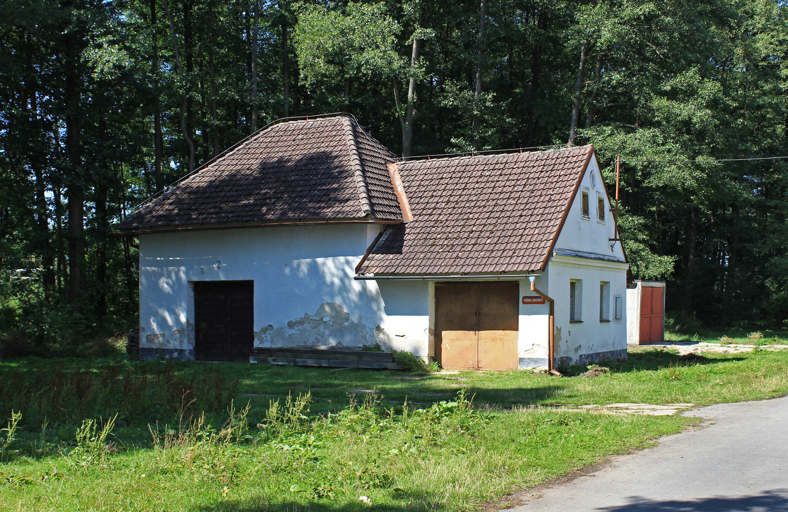 Old fire house in Hostkovice, part of Dačice, Czech Republic.